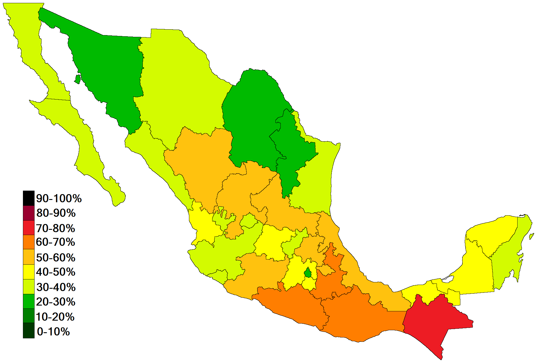 Map showing the percentage of people living in poverty under the Mexican poverty line as of 2012.